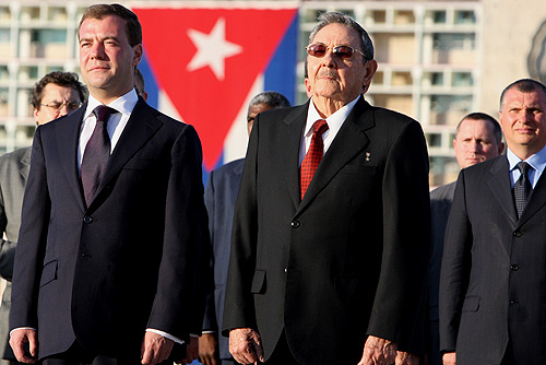 HAVANA.With President of the Council of State and Council of Ministers of Cuba Raul Castro.